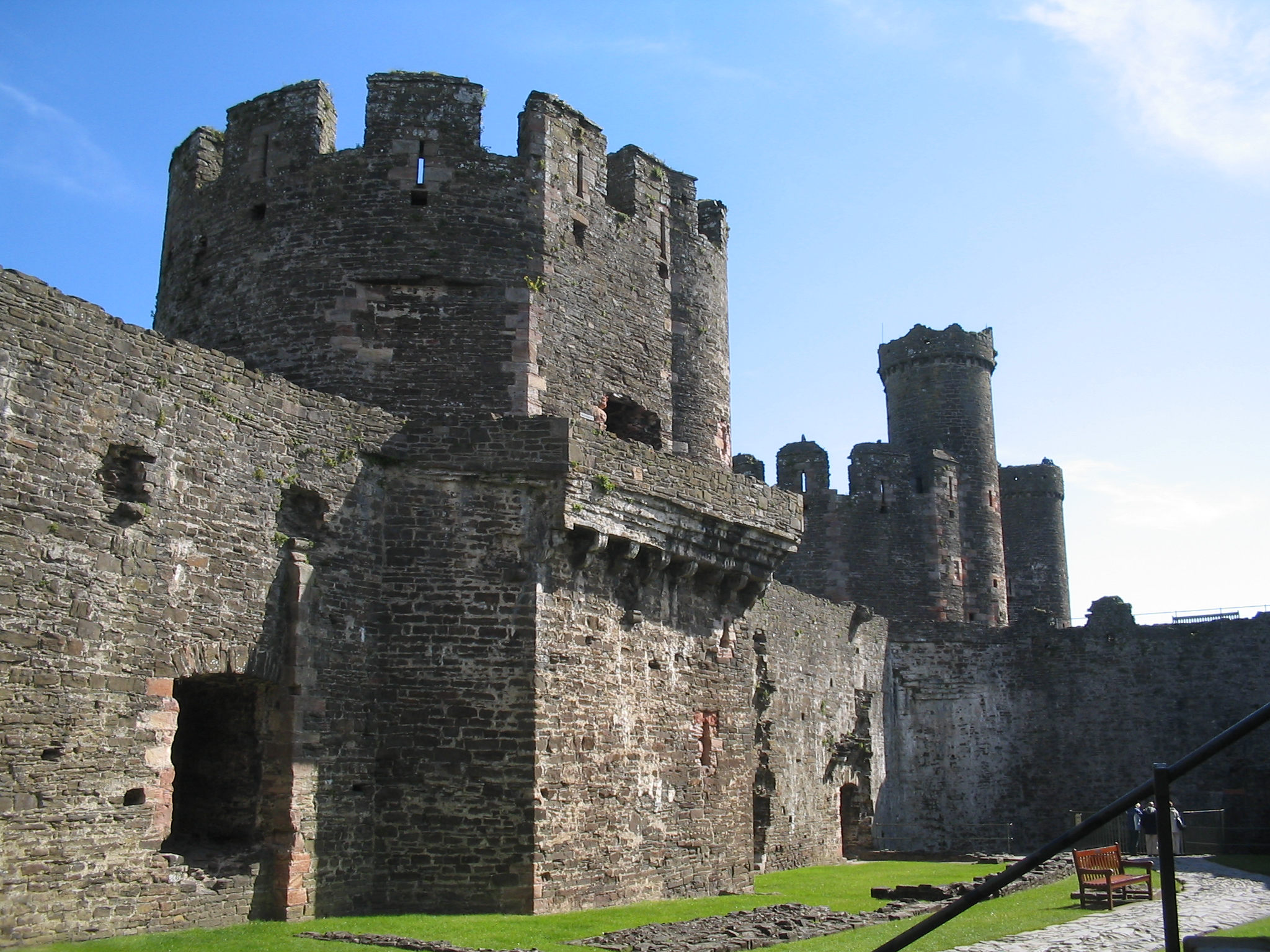 Conwy Castle, from the inside, near the entrance gate. David Benbennick took this photo on May 14, 2005 at 10:10 AM (9:10 UTC).